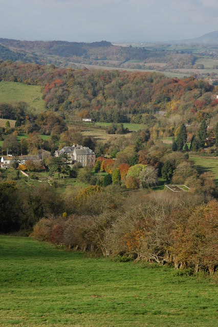 Troy House, near to Monmouth, Wales